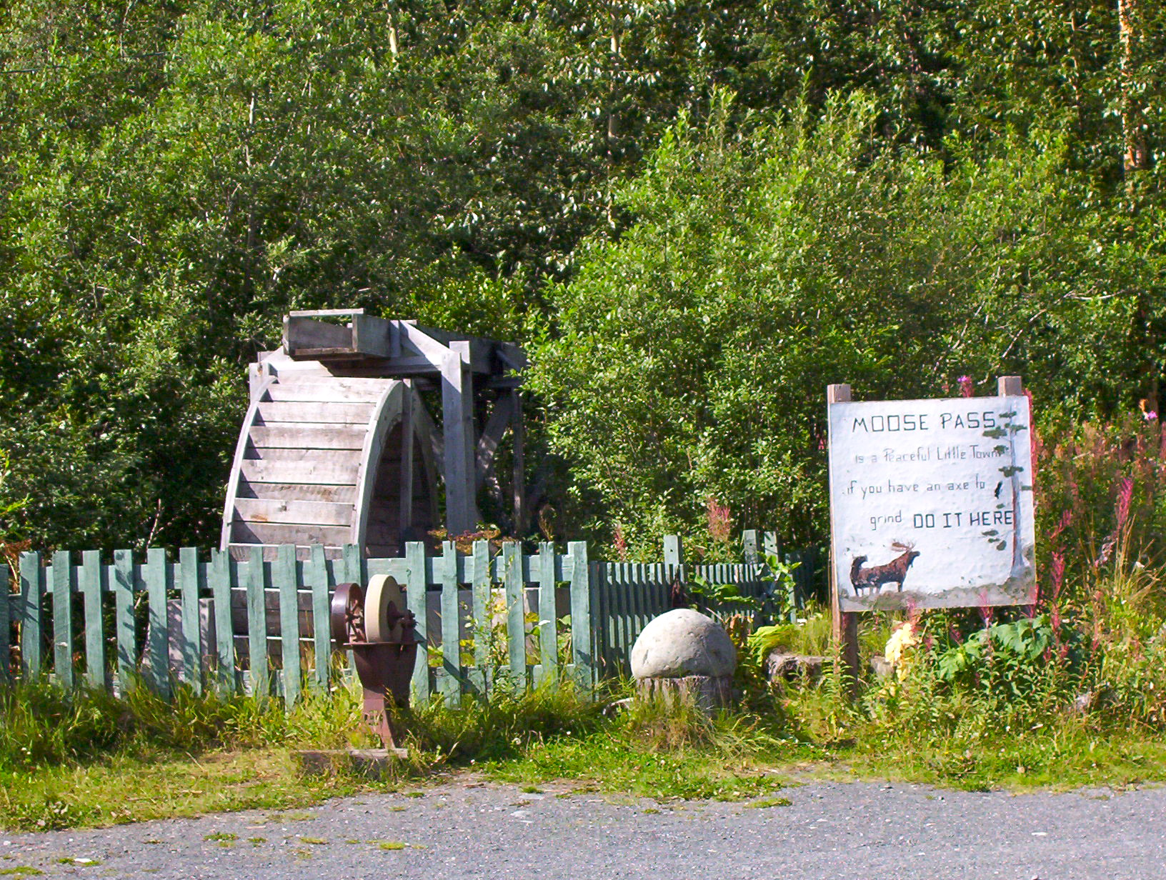 water wheel, landmark of Moose Pass, Alaska Licensing Category:Images of Alaska